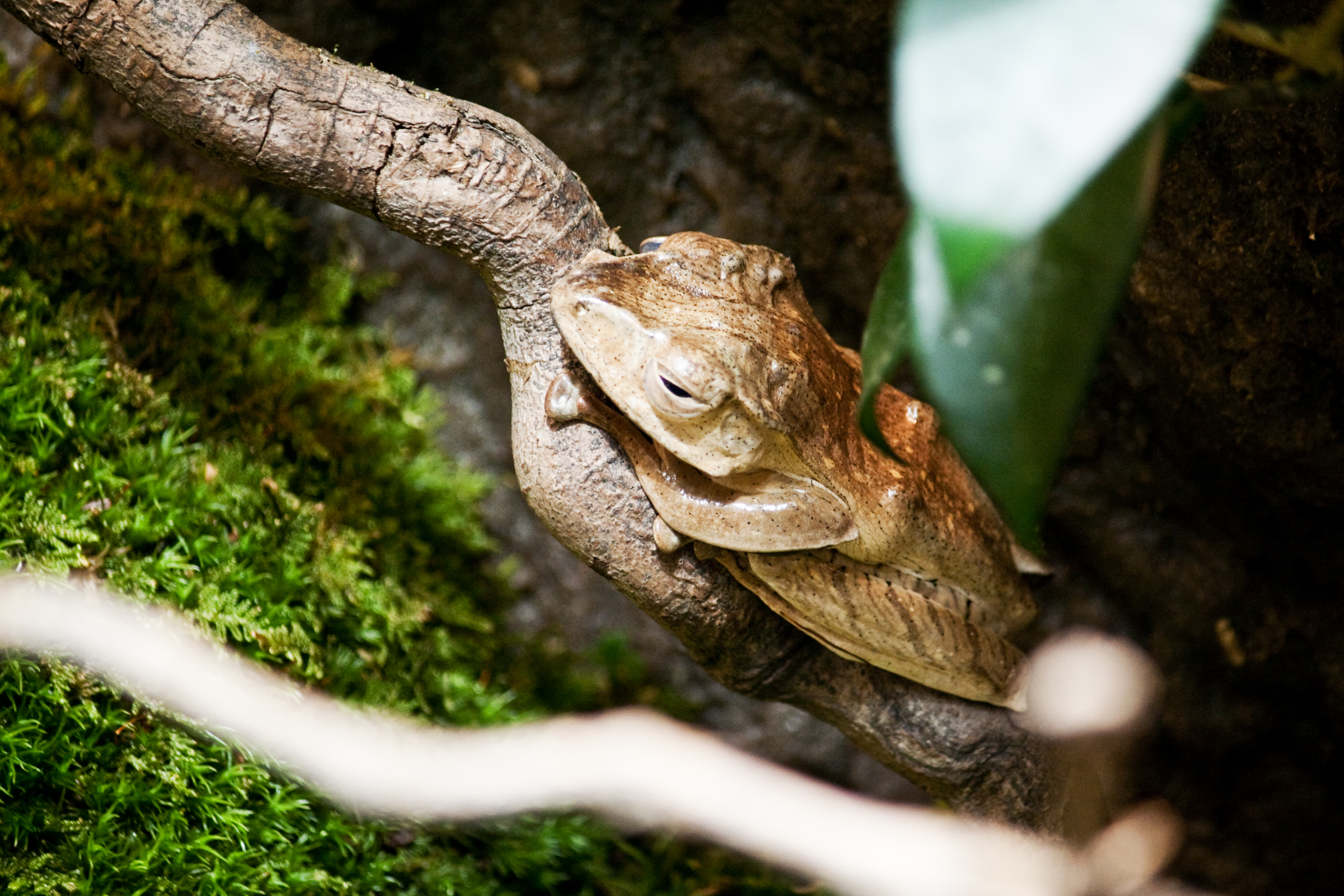 Polypedates otilophus, American Museum of Natural History Frog Exhibit